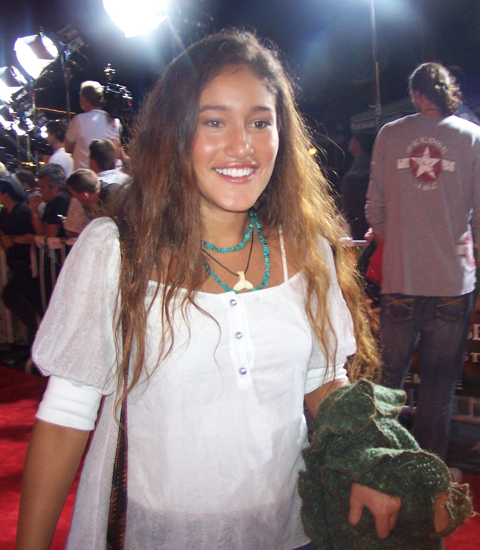 American actress and singer Q'Orianka Kilcher.